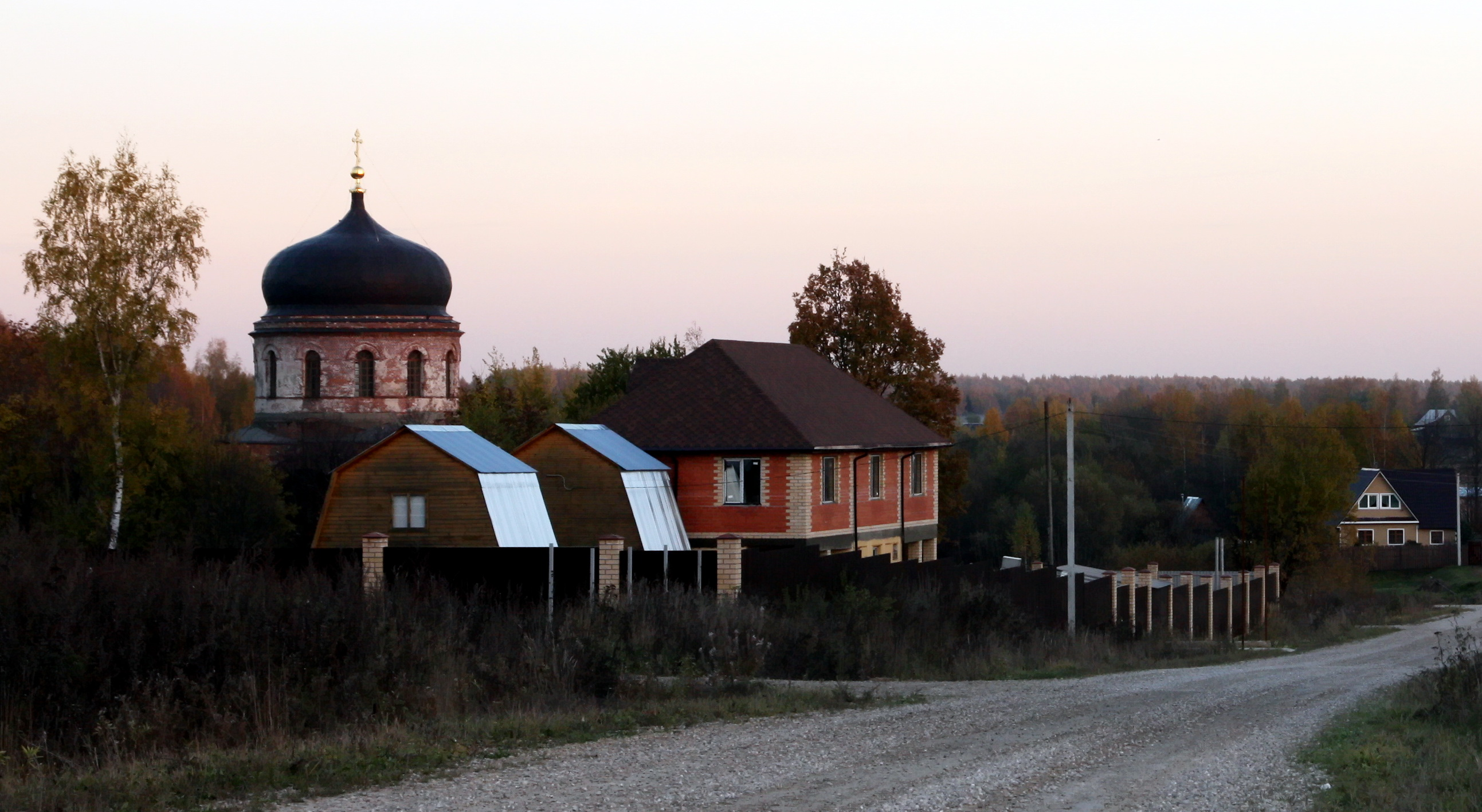 approaching Gagino village at dusk with Our Lady of Kazan church